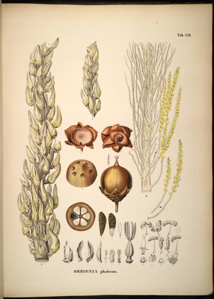 Illustration of Attalea speciosa (syn. Orbignya phalerata)